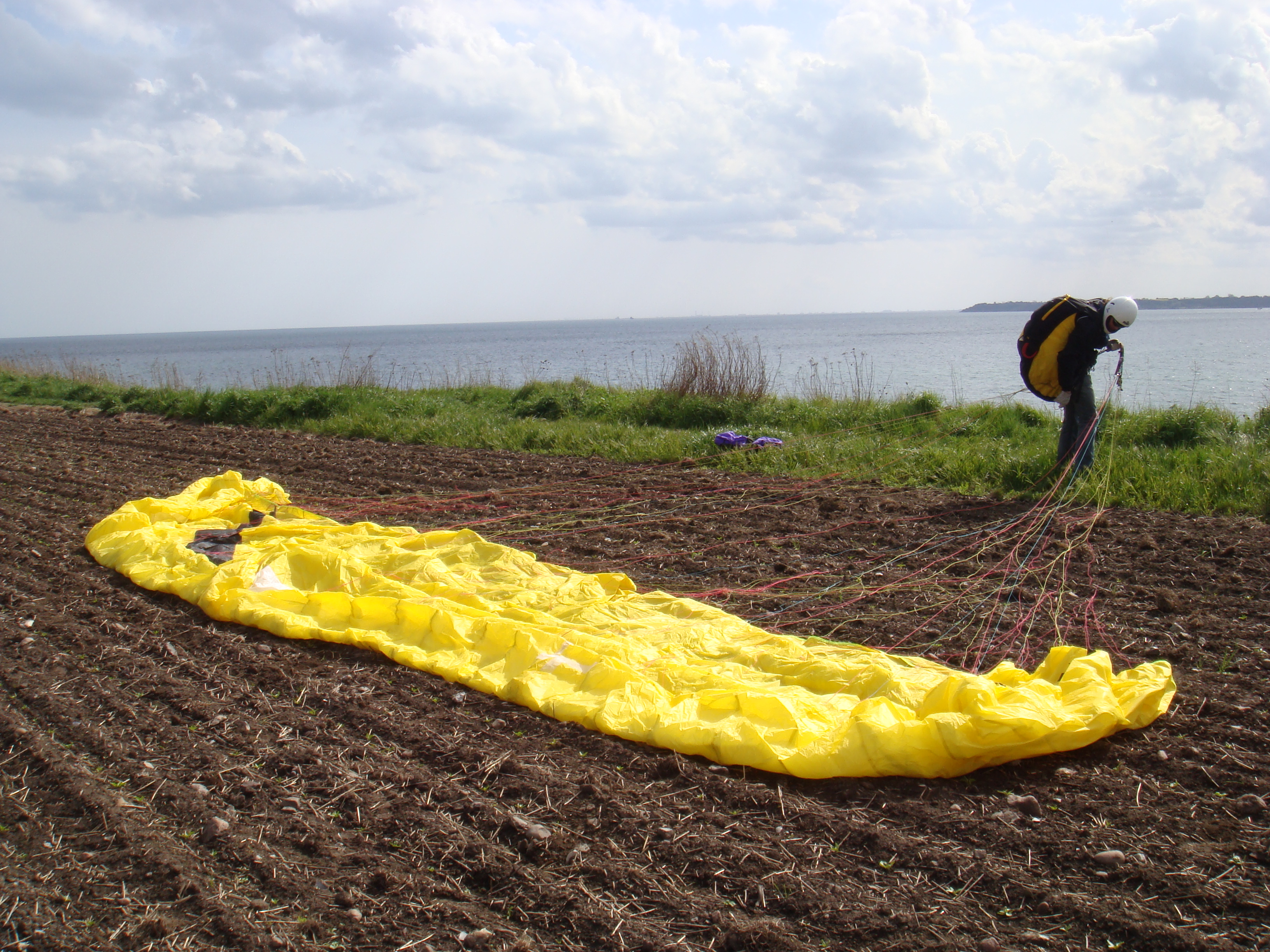 Necessary preparations being made.